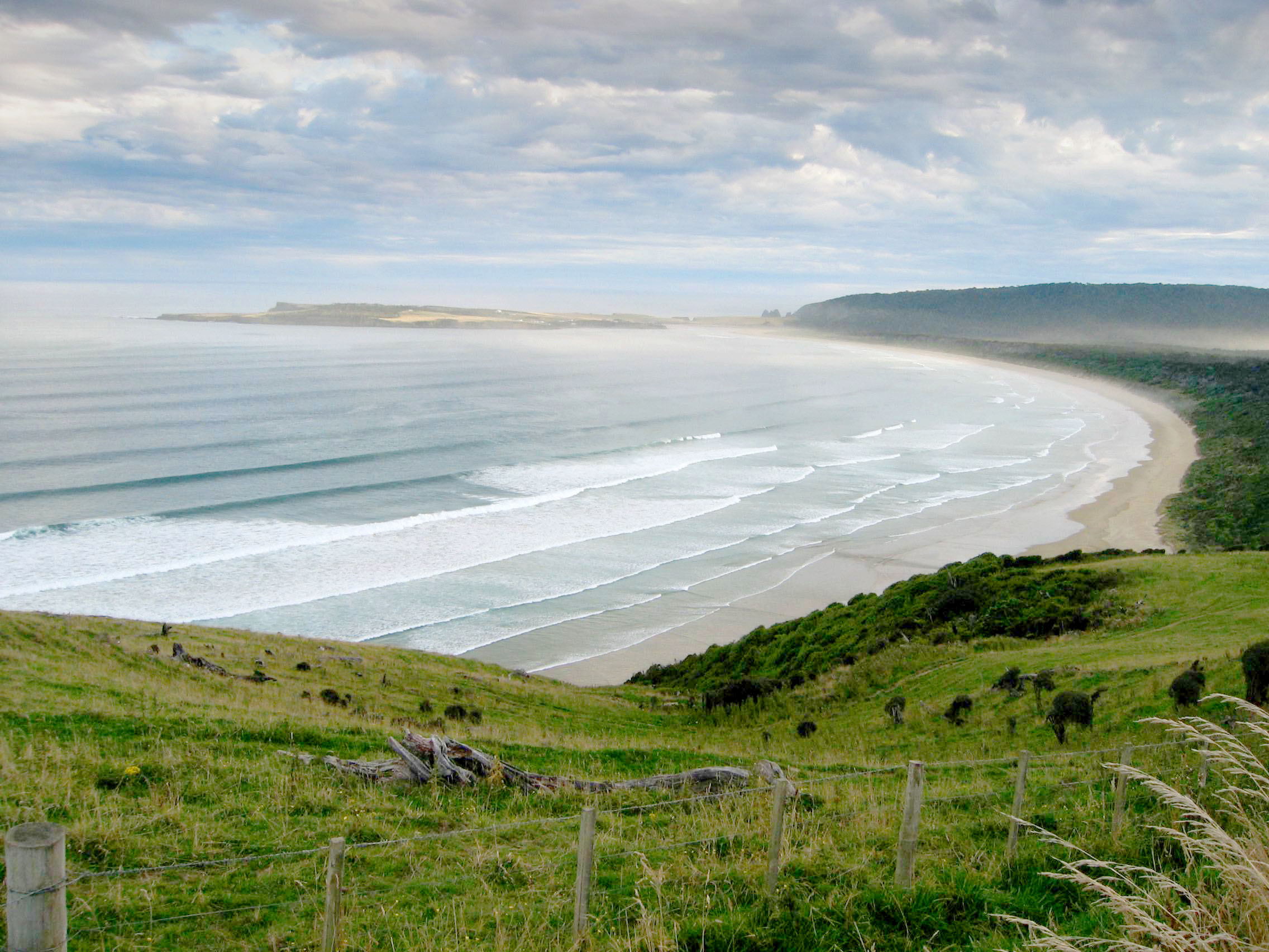 Looking over Tautuku Bay towards the Tautuku Peninsula, in the Catlins, New Zealand. The peninsula hosted a whaling station in the 1830s and 1840s.